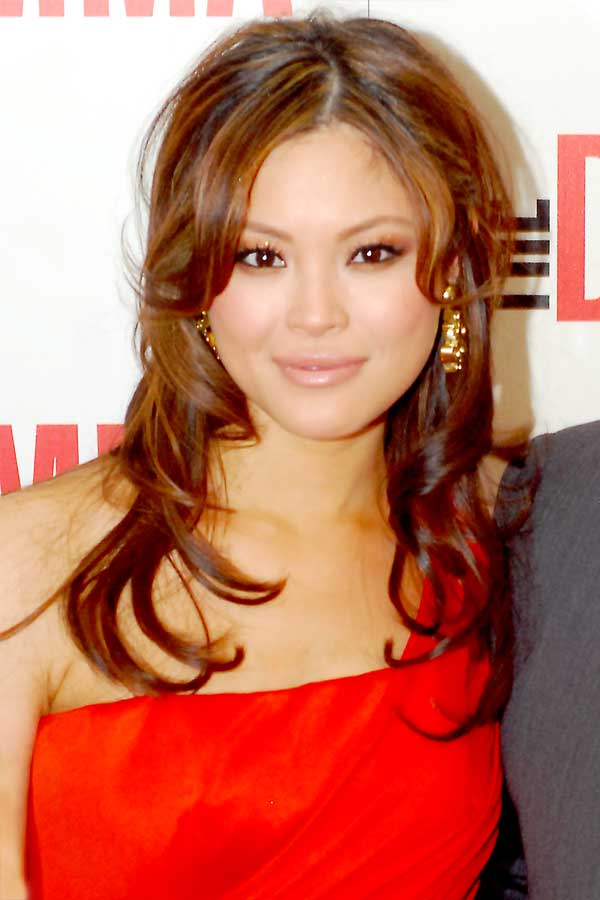 Steffiana de la Cruz wife of actor Kevin James, at the World Premier of the film "The Dilemma" at AMC River East Theater in Chicago, IL, USA on January 6, 2011. Photo by Adam Bielawski